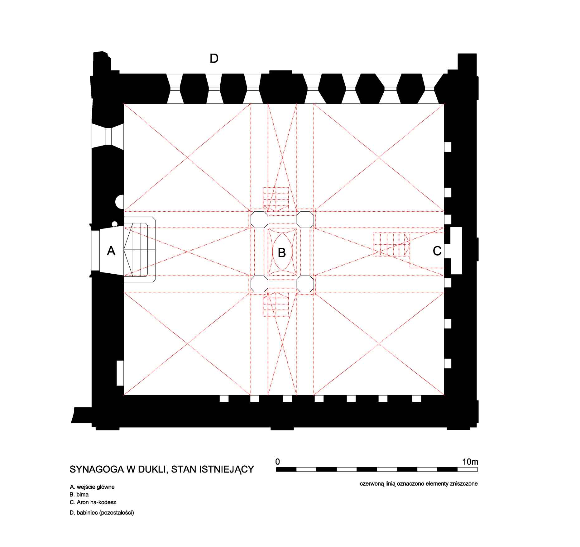 Synagogue in Dukla - floor plan